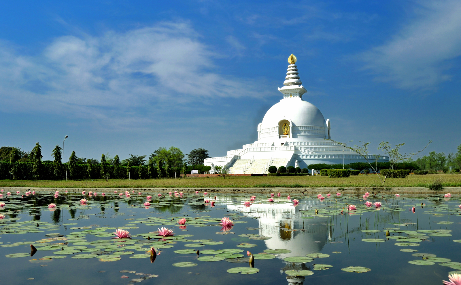 This monastry was built by Japan to signify the place Lumbini as the birthplace of Budhha. Lumbini attracts a lot of tourists from both overseas and Nepal itself. The other attractions include Mayadevi Temple,the birthpalce of budhha and more than a dozen other monasteries built by different countries like china, germany, thailand, sri lanka and more..